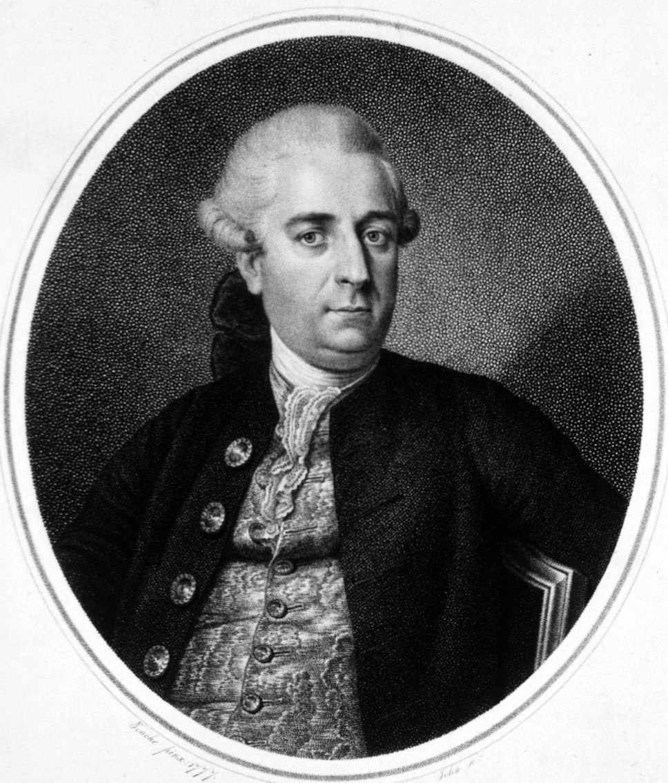 Portrait of Joseph von Quarin (1733-1814), Austrian physician